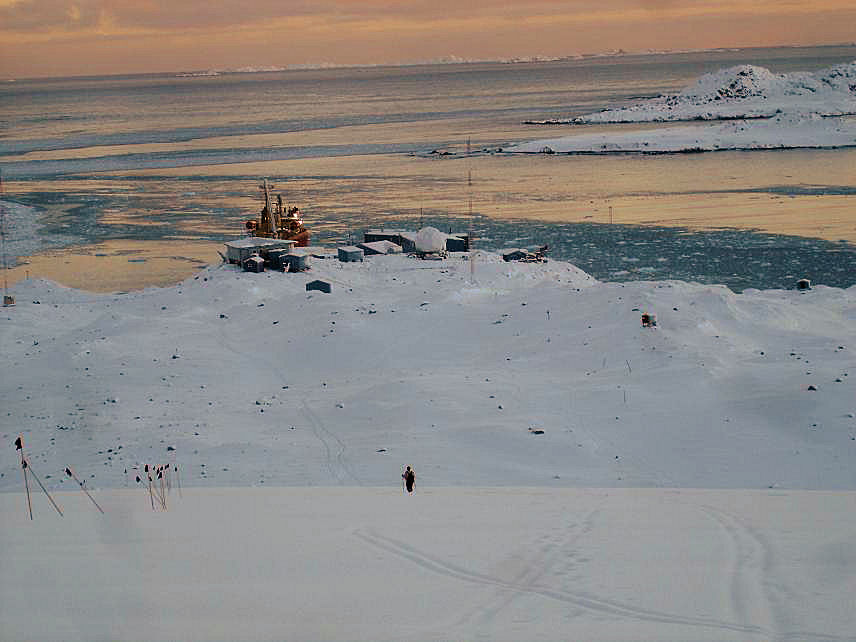 The view of Palmer Station from the glacier above it. The Laurence M. Gould (orange) can be seen just docking at the water's edge.